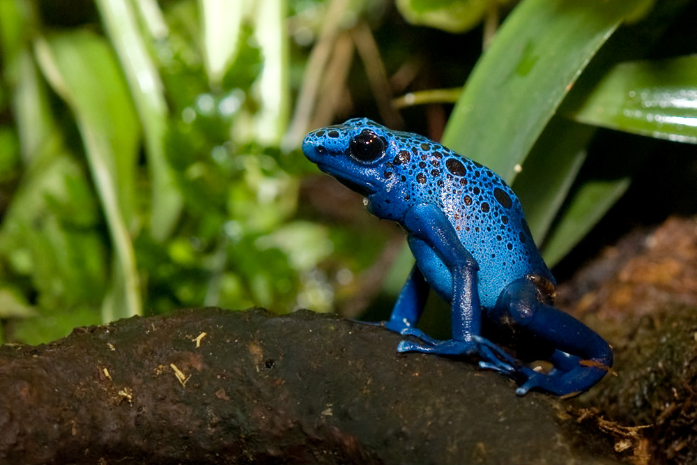 Dendrobates tinctorius var. azureus (Poison dart frog)